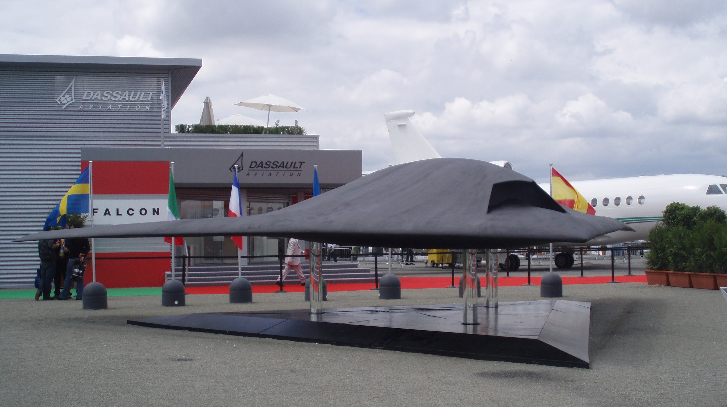 Dassault nEUROn, Paris Air Show 2007